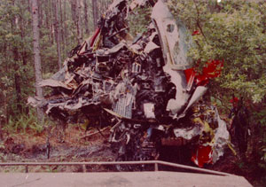 Photo of Atlantic Southeast Flight 2311 wreckage being lifted NTSB Photo